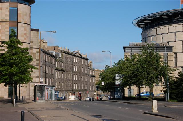 Morrison Street. Morrison Street links Lothian Road to Haymarket, it is normally filled with traffic but this photo was taken on a Sunday morning when the street was quiet. This is a view from the Lothian Road end of the street, the Edinburgh International Conference Centre is on the right. 489280